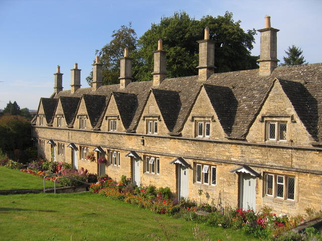 Chipping Norton, Oxfordshire: Almshouses.